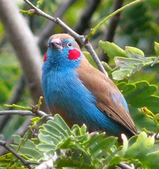 Red-cheeked cordon bleu (Uraeginthus bengalus), photographed in Kenya